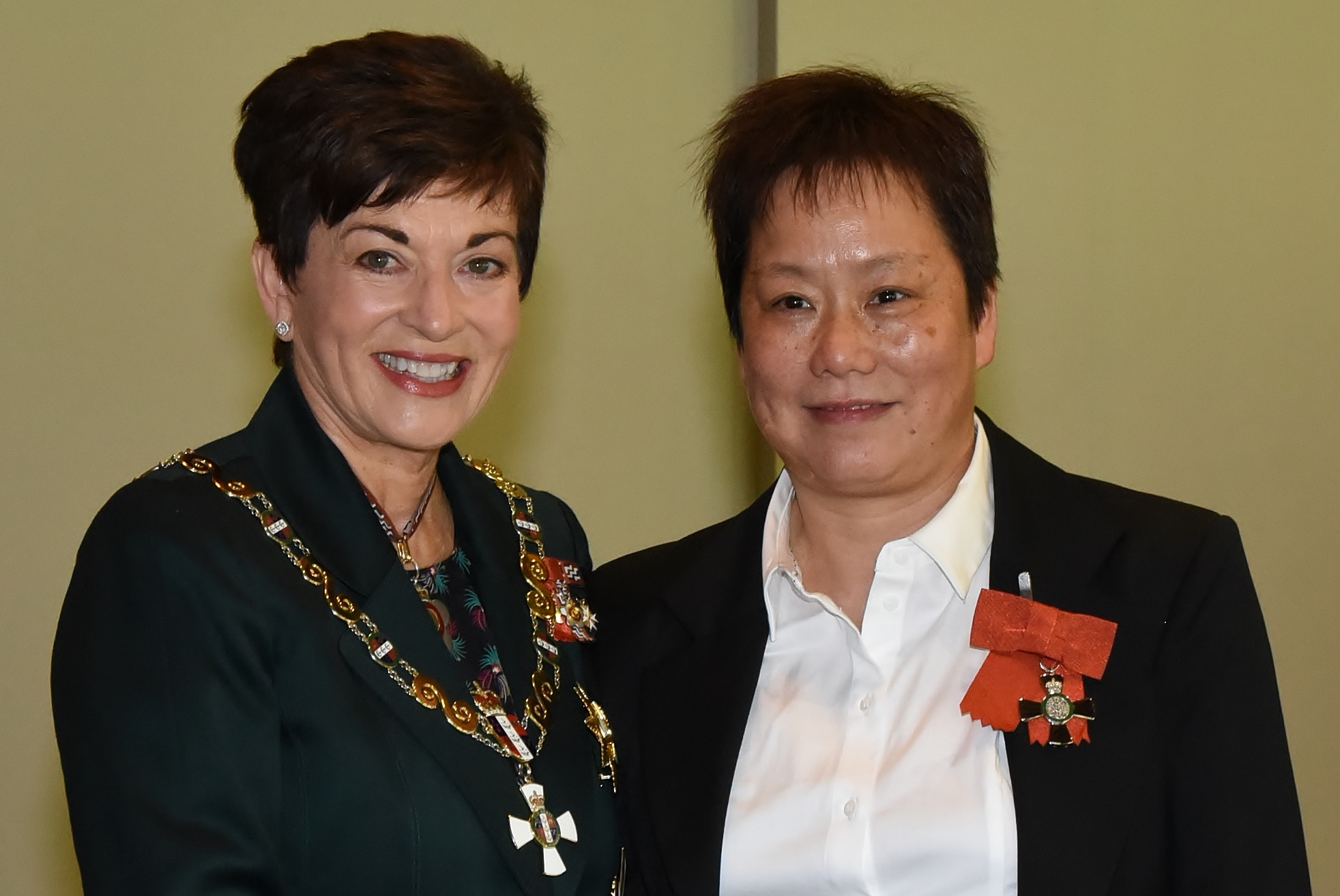 Chunli Li (right), after receiving MNZM for services to table tennis from the Governor-General, Dame Patsy Reddy